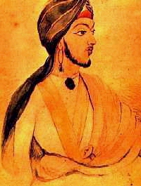 Nau Nihal Singh, Ruler of Sikh Empire.